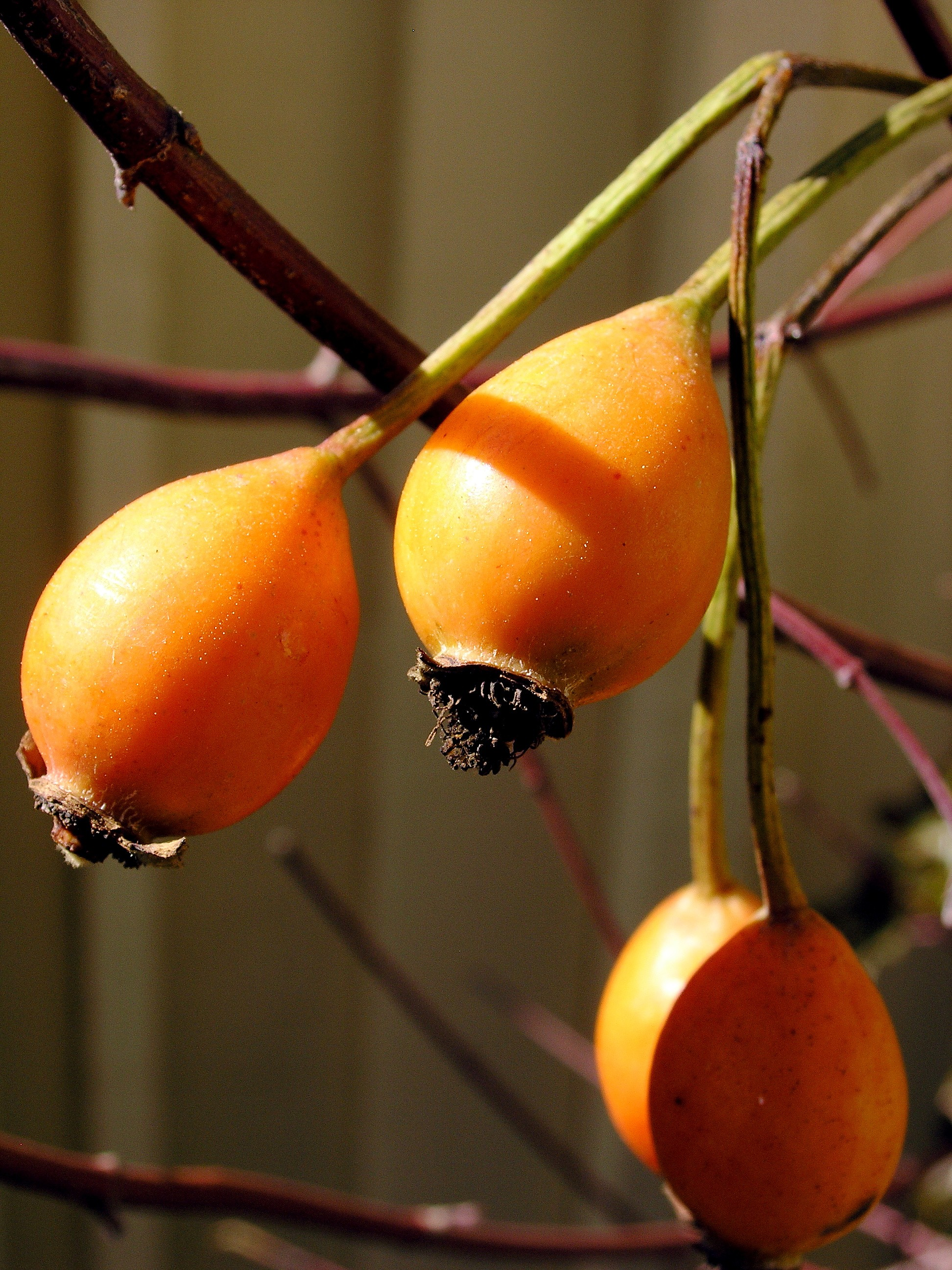 The hips of a California Wild Rose (Rosa californica)